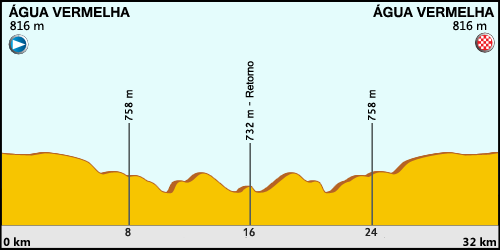 Profile of the 2nd stage of the 2013 Desafio das Américas de Ciclismo